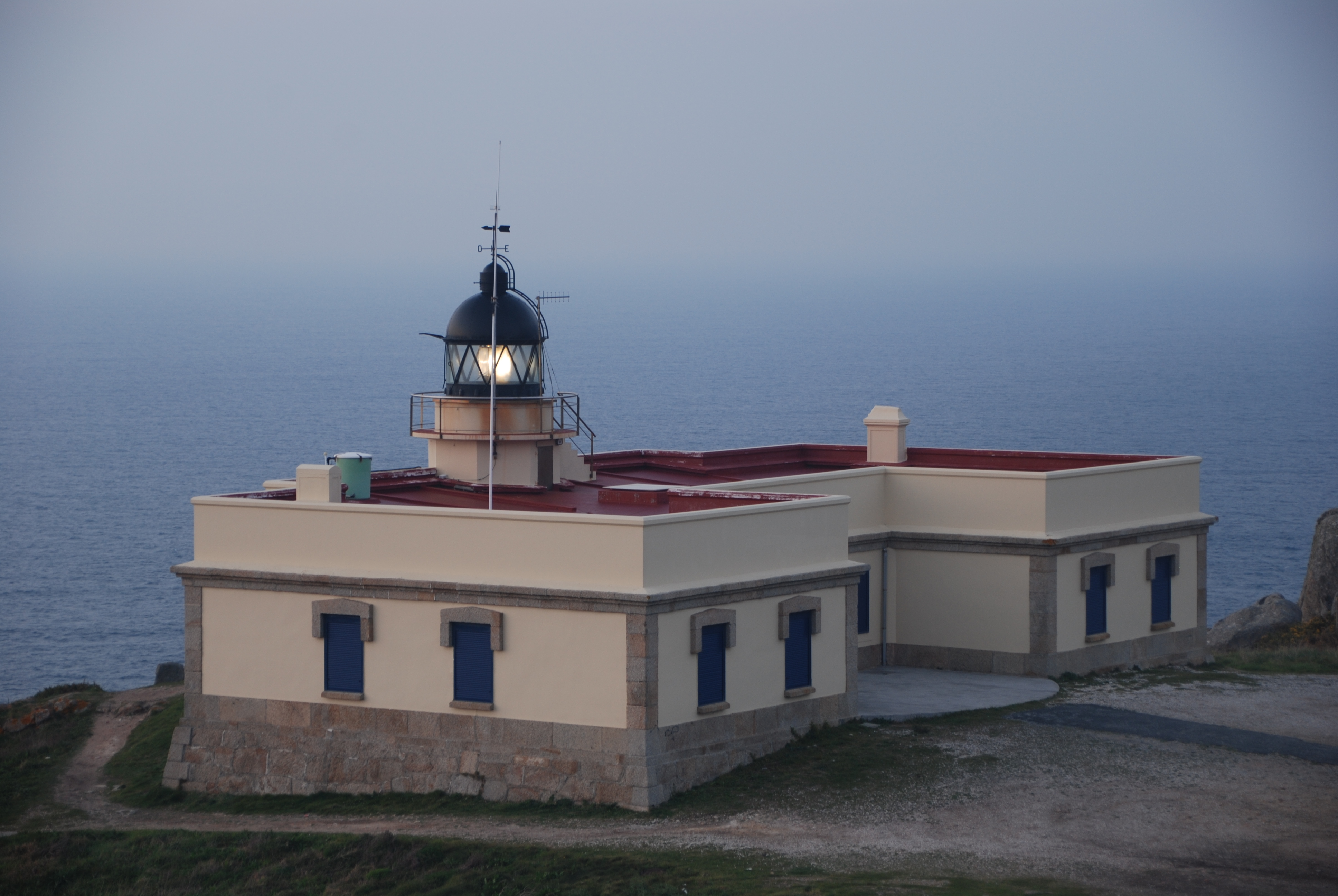 This is a photography of a Special Area of Conservation in Spain with the ID: ES1110002. Natura2000 entry, EEA entry